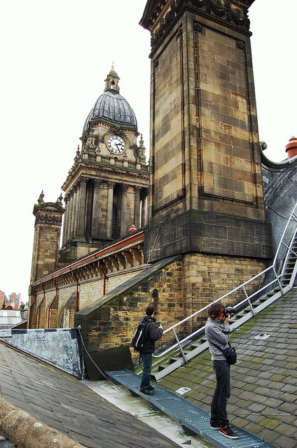 Town hall roof detail In September 2008 the Leeds town hall will celebrate it's 150th year anniversary. As part of those celebrations there is a fascinating behind the scenes picture insight featuring history and myth of this iconic landmark. Clock tower panoramas, Victorian cells and crows nest pictures can be seen here